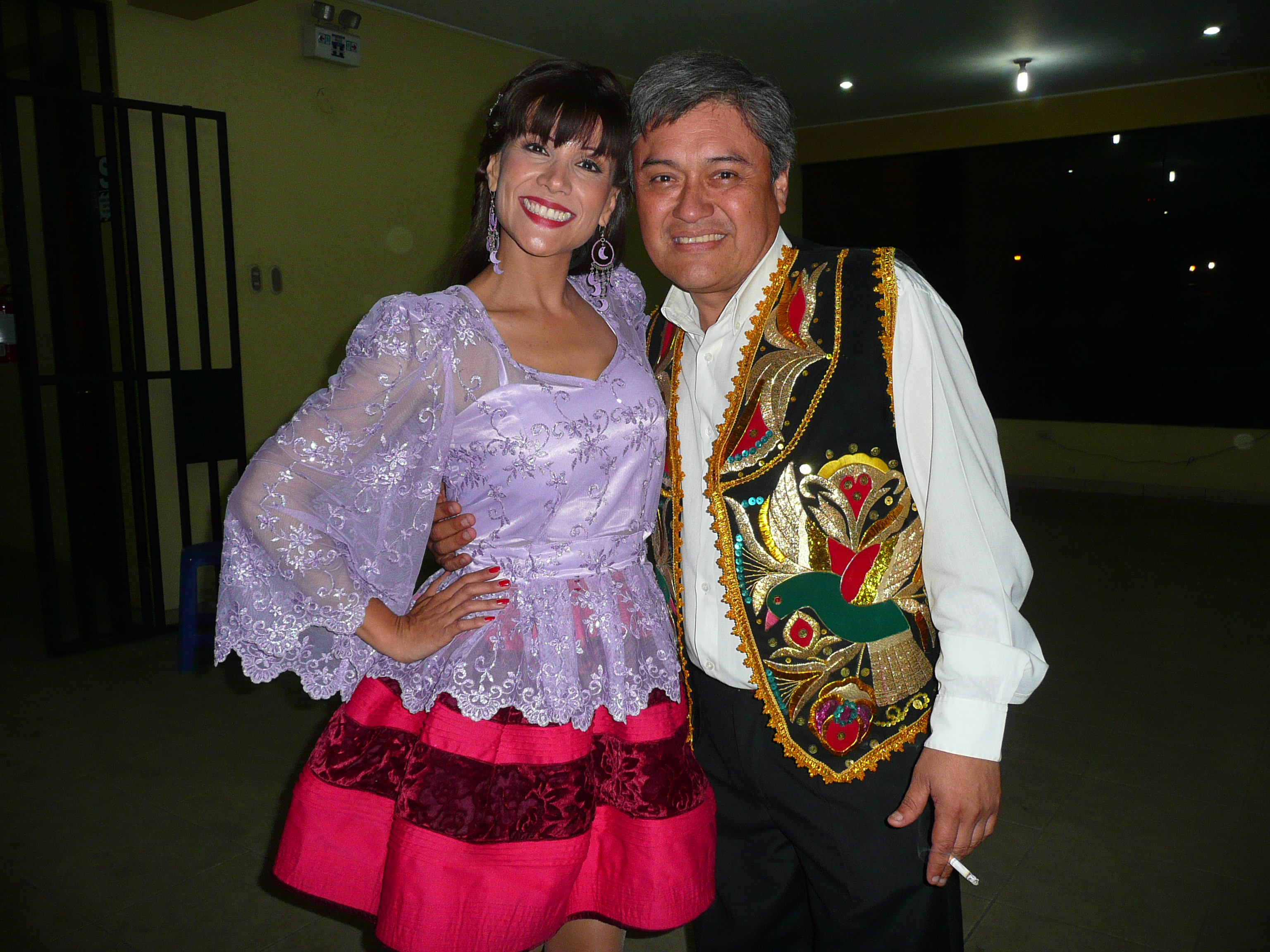 Monica Sanchez (Sally) y Alfredo Levano (Hilario) durante un descanso en la grabacion de la miniserie peruana "Sally, la muñequita del pueblo"